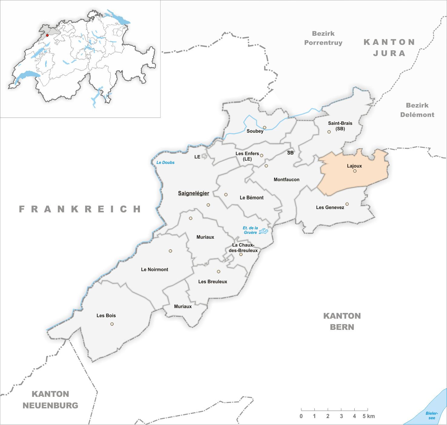 Municipality Lajoux